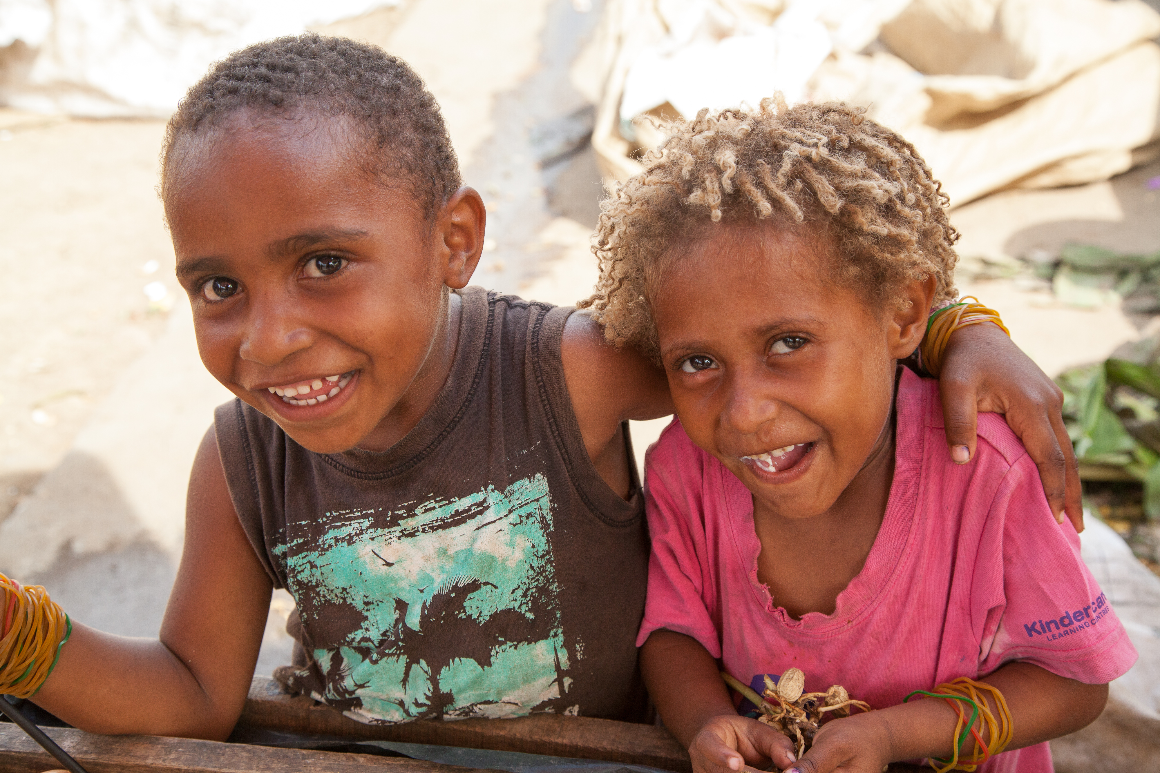 Photographing market life at Gerehu. Children (pikinini's) and women make up the majority of the market. Photo by Ness Kerton for AusAID. (13/2529)